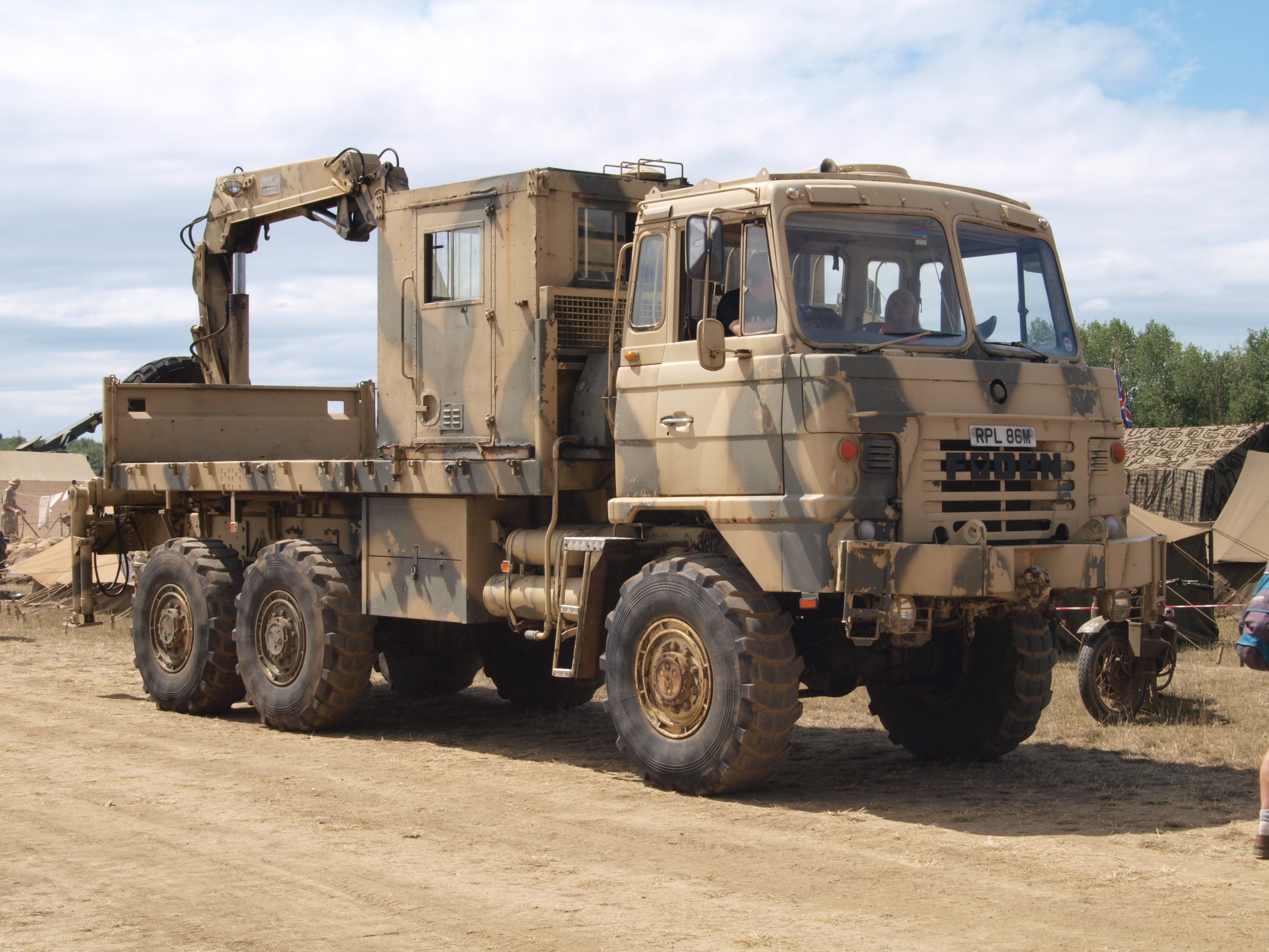 Foden recovery truck